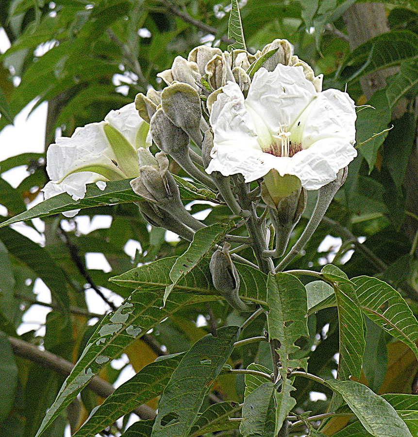 Ipomoea arborescens. A tree Morning Glory, native to the northern Neotropics. Photo from near Atlixco, Mexico. In context at